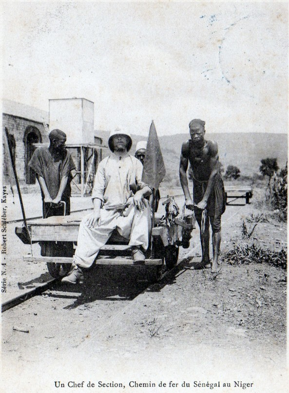 Un chef de section. Chemin de fer Kayes-Niger